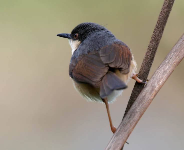 Ashy Prinia or Ashy Wren-Warbler Prinia socialis at Lotus Pond, Hyderabad, India.